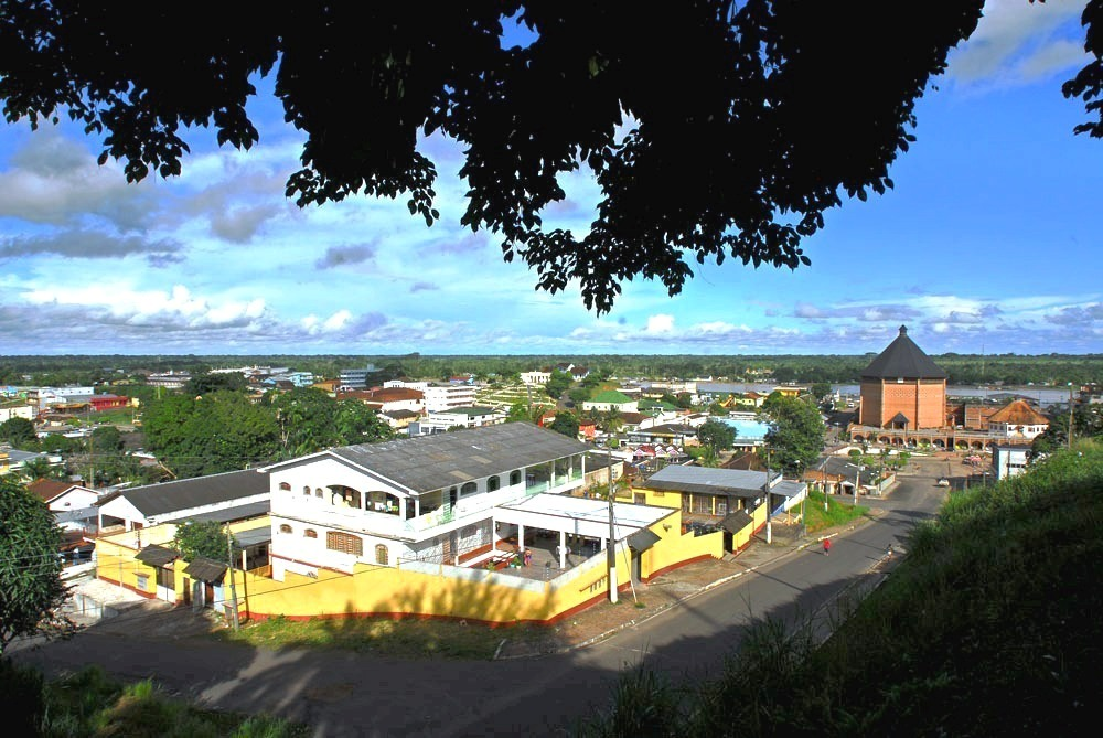 Partial view of Cruzeiro do Sul, Acre, Brazil.